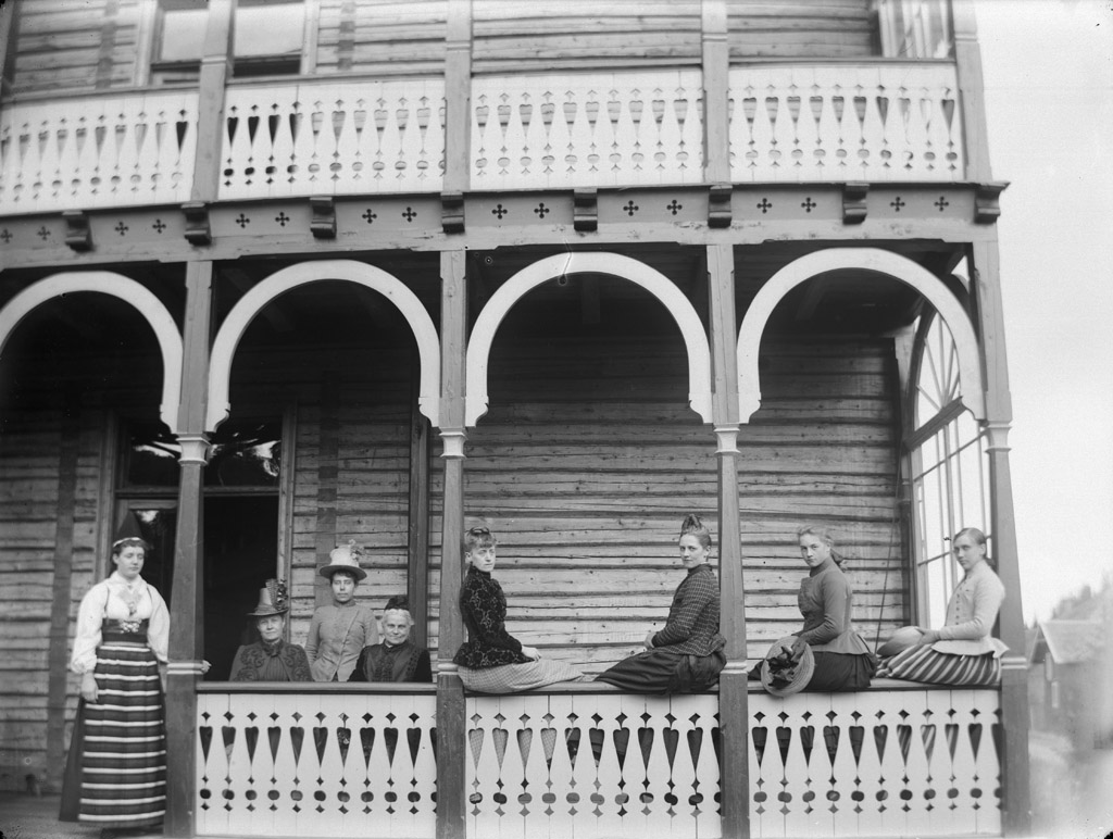 Women on a veranda. Tonsaasen Sanatorium in Valdres area. Kvinnor på en veranda. Tonsåsen sanatorium i Valdres. Location: Tonsåsen, Etnedal Municipality, Valdres, Oppland fylke (county), Norway Photograph by: Carl Curman Date: c. 1890 Format: Glass plate negative Kulturmiljöbild: 16001000148326 (Persistent URL) Read more about the photo database (in english)